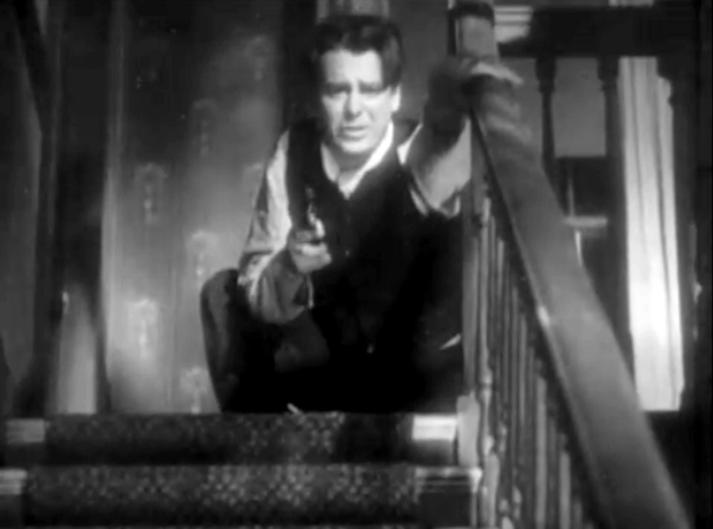 Film trailer screenshot of Wallace Ford in The Informer